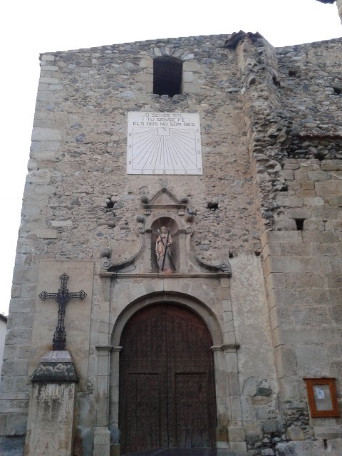 Façade of the churc of Saint Andrew in Catllà. "Me without sun and you without faith, both we are nothing", says the inscription in Catalan in the sundial.